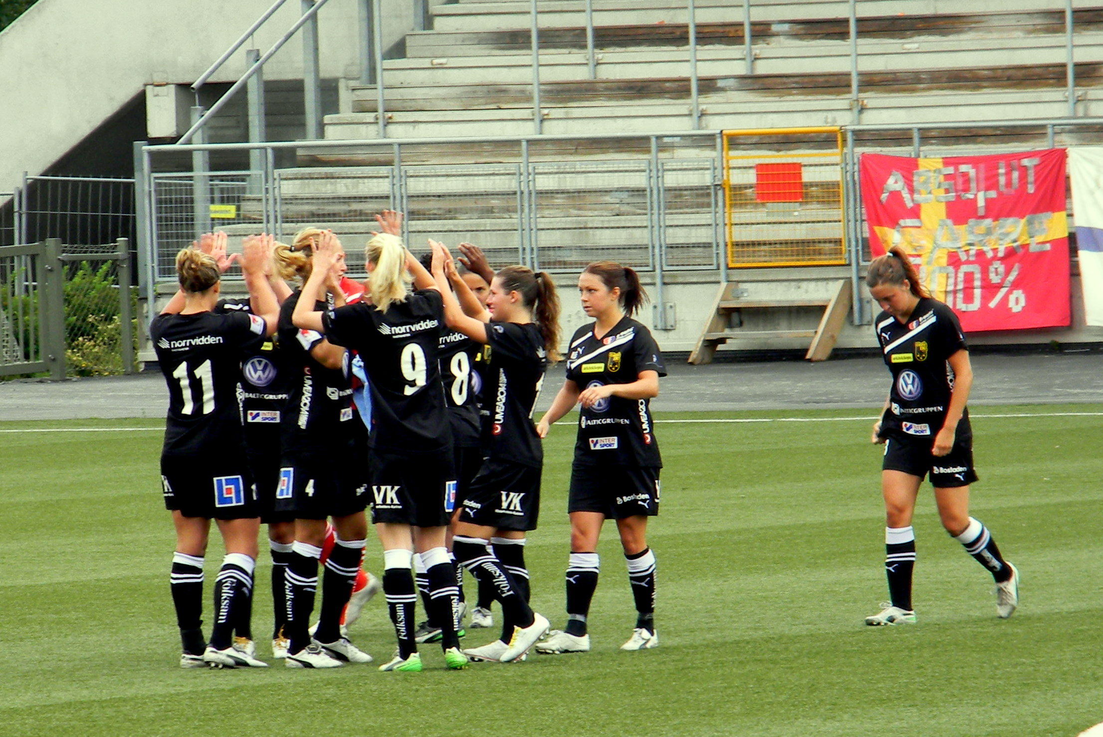 Umeå IK before the game with Jitex BK on Jul 24, 2011